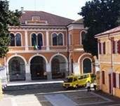 Elementary schools DeLucca in Gravellona Lomellina, Lombardy, Italy